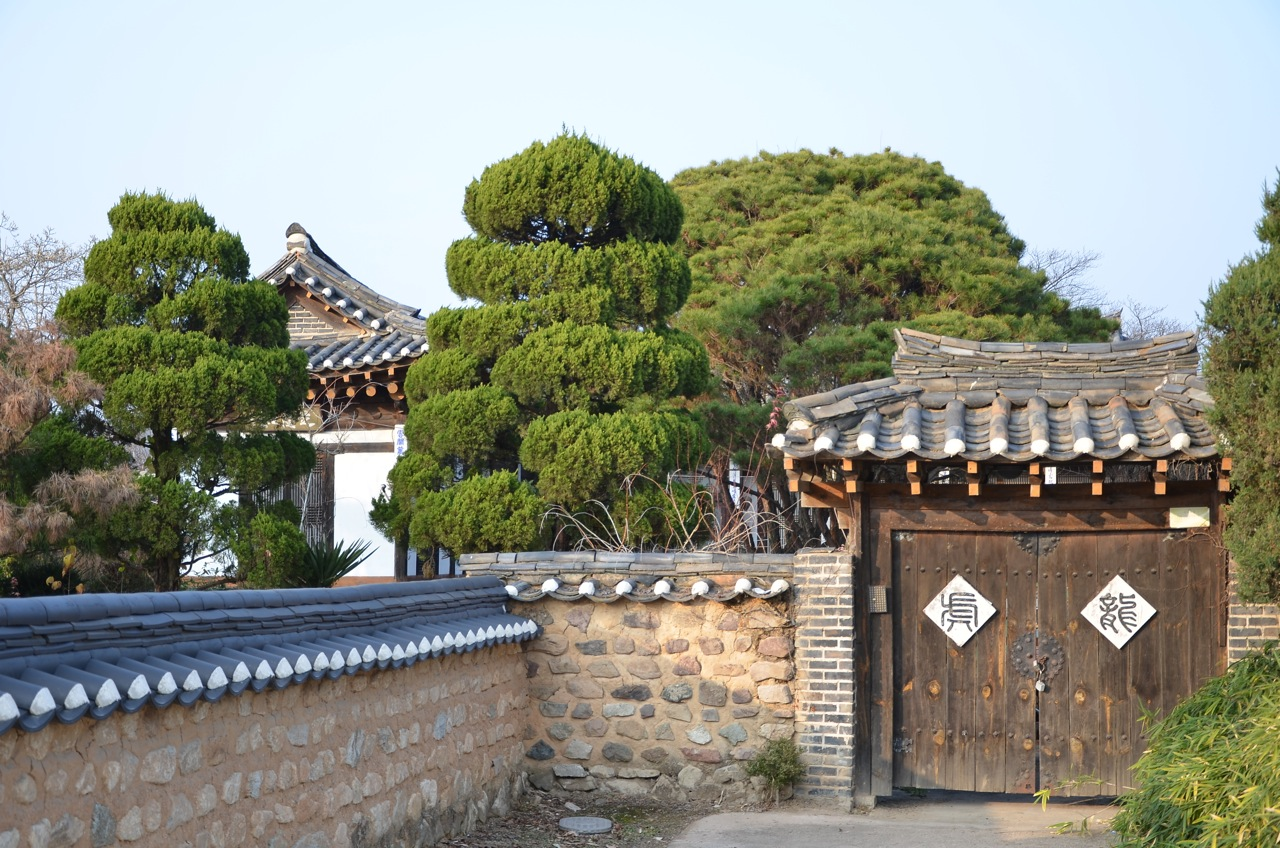 House in Hahoe Village, South Korea